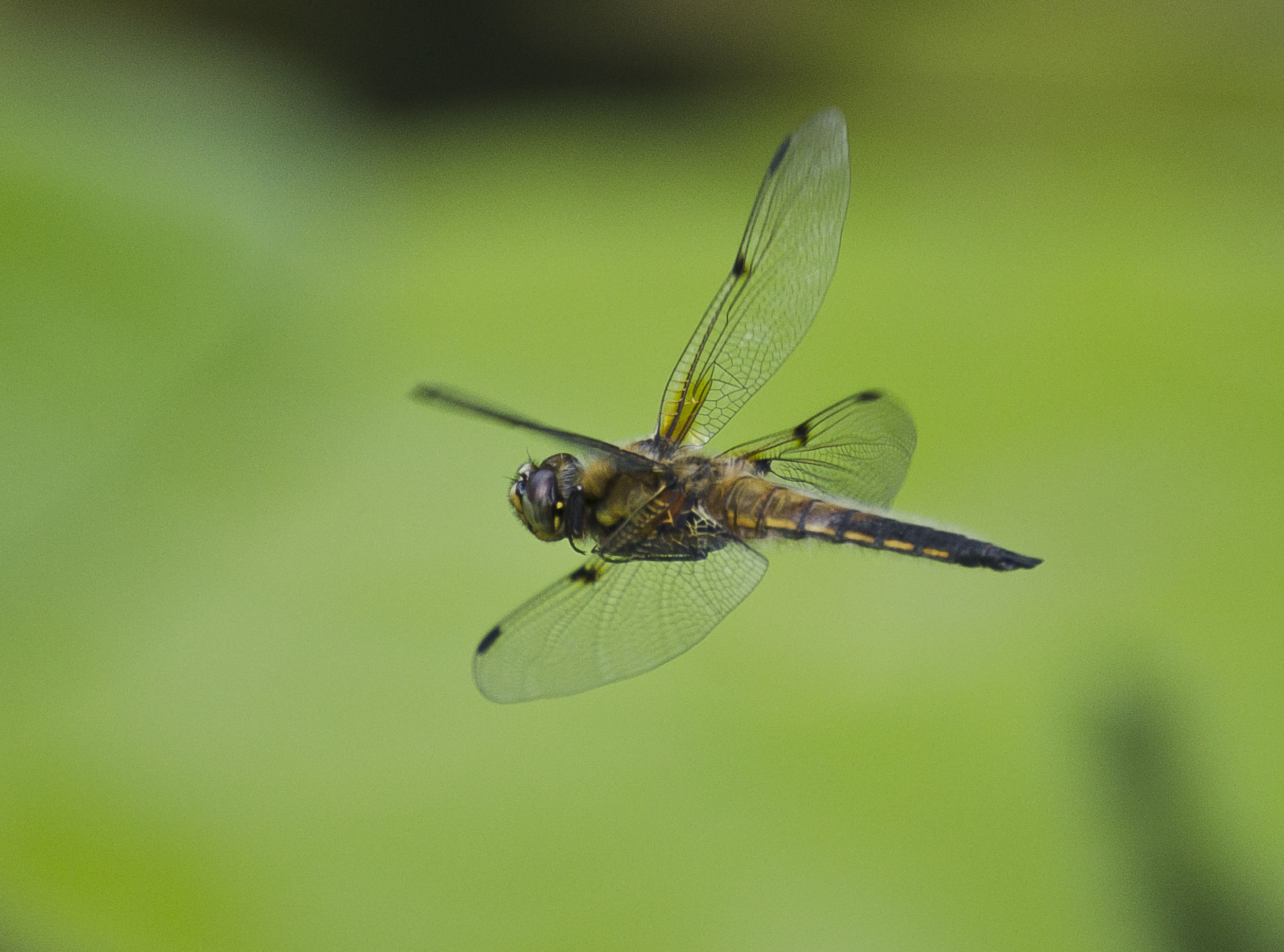 Four-spotted Chaser (Libellula quadrimaculata) in flight. Forest pond near Stuttgart, Germany.